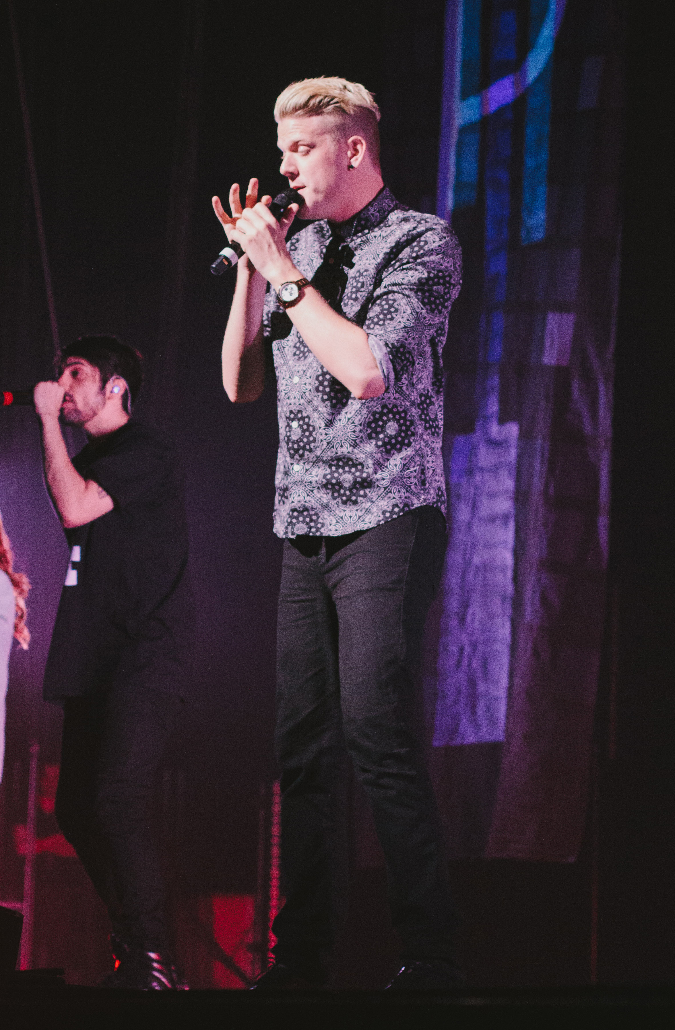 Scott Hoying performing with Pentatonix Peabody in St. Louis on March 19, 2014.